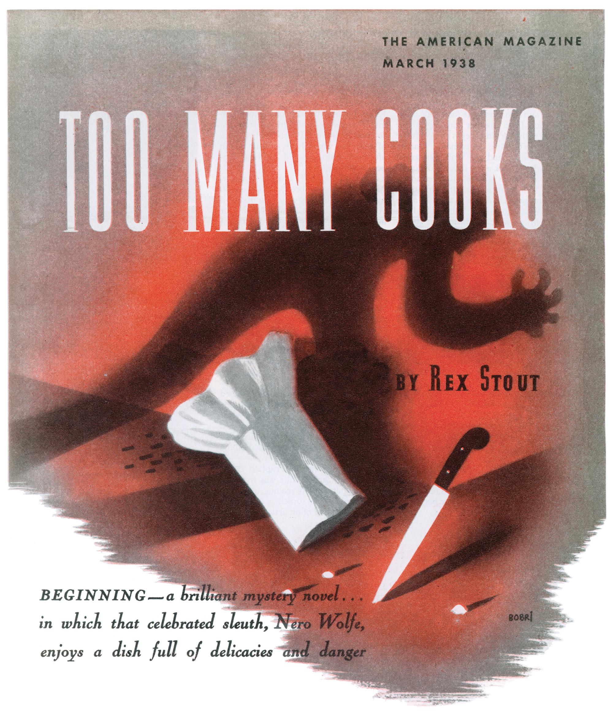 Lead illustration from The American Magazine printing of Too Many Cooks (1938), a Nero Wolfe novel by Rex Stout, serialized in six installments (March–August 1938)